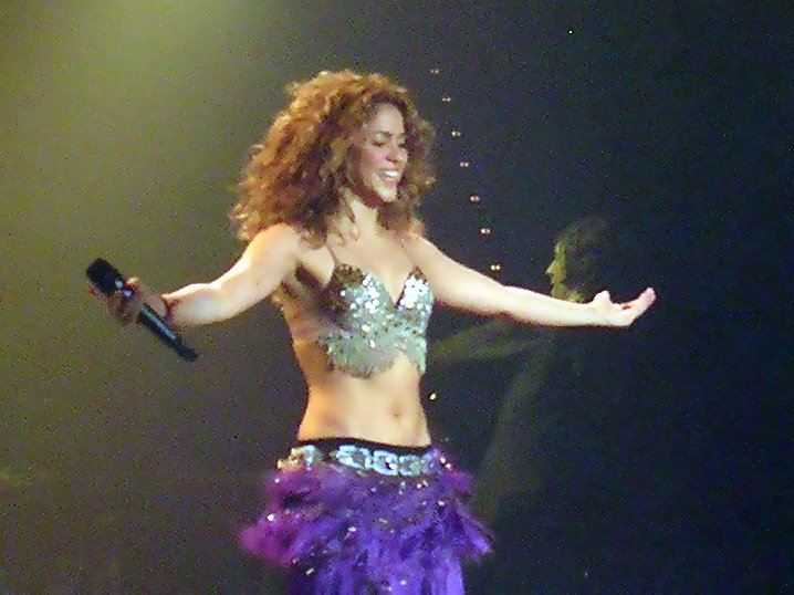 Shakira during the Oral Fixation Tour 2006, La Coruña-Spain.